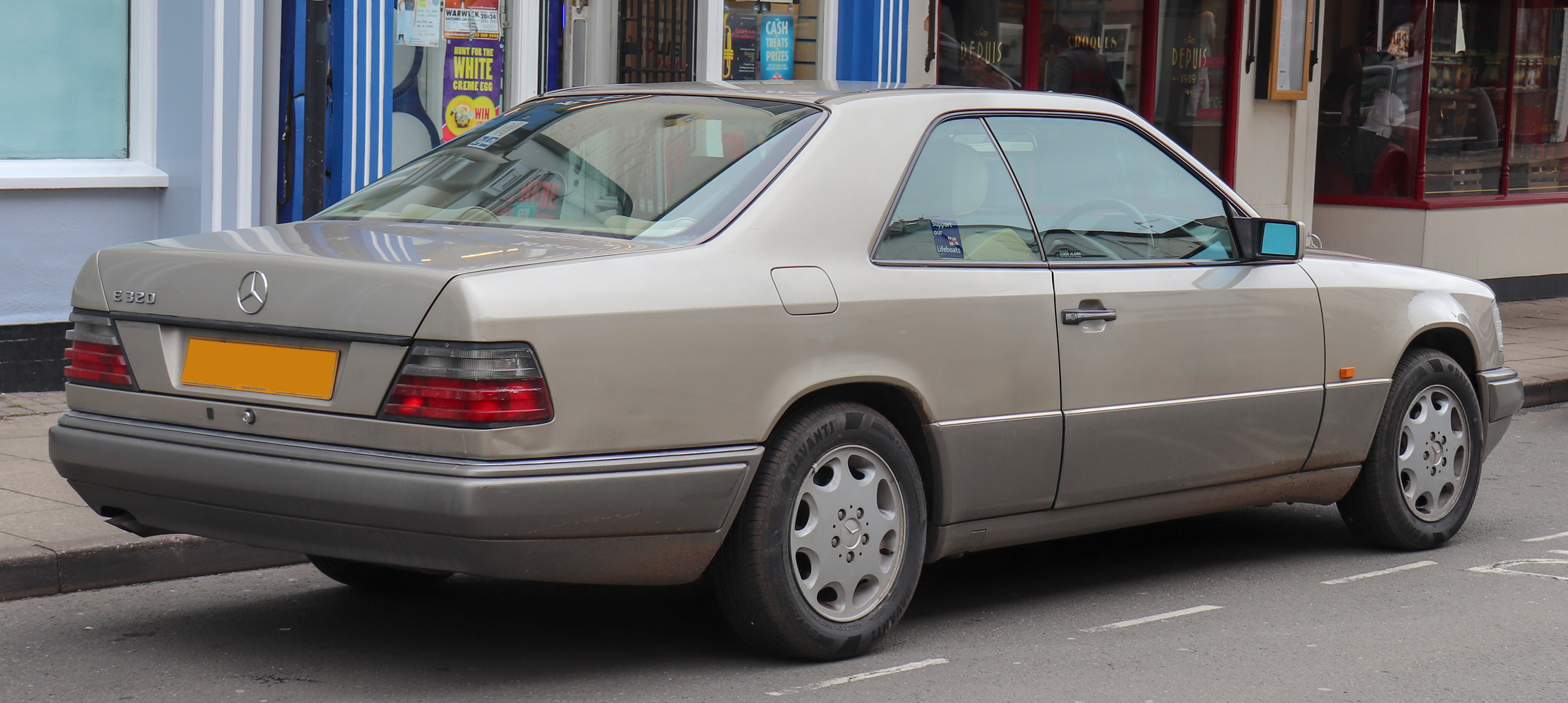 1995 Mercedes-Benz E320 Automatic 3.2 Rear Taken in Leamington Spa